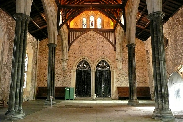 The Great Hall, Winchester Castle This is Henry 3rd's Great Hall, the only significant remains of Winchester Castle, built in 1222. This is looking east towards the stainless steel gates erected to commemorate the wedding of Charles, Prince of Wales to Lady Diana Spencer in 1981. Surrounding the gates, the wall is painted with the names of the MPs who have represented Hampshire since the late 13th century, the time of Edward 1st.